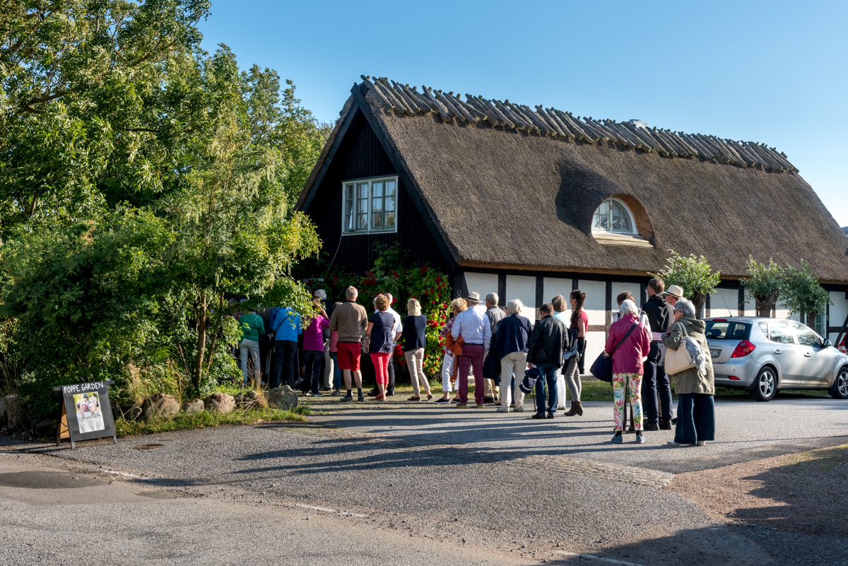 The audience is queing outside Poppegården, an open-air theatre in Domsten, Helsingborg in the south of Sweden.